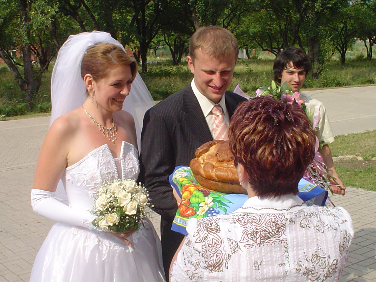 a ukrainian tradition...the newly wed before coming inside the reception area...must take a bite of the bread that was deeped unto salt...